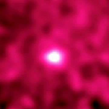 The Energetic Gamma Ray Experiment Telescope (EGRET) on the Compton Gamma Ray Observatory has detected gamma rays from the Moon as it passed through the instrument field of view several times between 1991 and 1994. The average flux, and the energy spectrum of the lunar gamma radiation are consistent with a model of gamma ray production by cosmic ray interactions with the lunar surface, and the flux varies as expected with the solar cycle. Although the same processes may occur on the Sun, EGRET does not detect the quiet Sun. Thus, in high-energy gamma rays, the Moon is brighter than the quiet Sun.